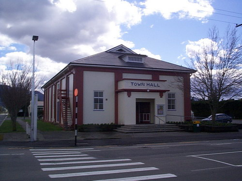 Oxford, New Zealand.